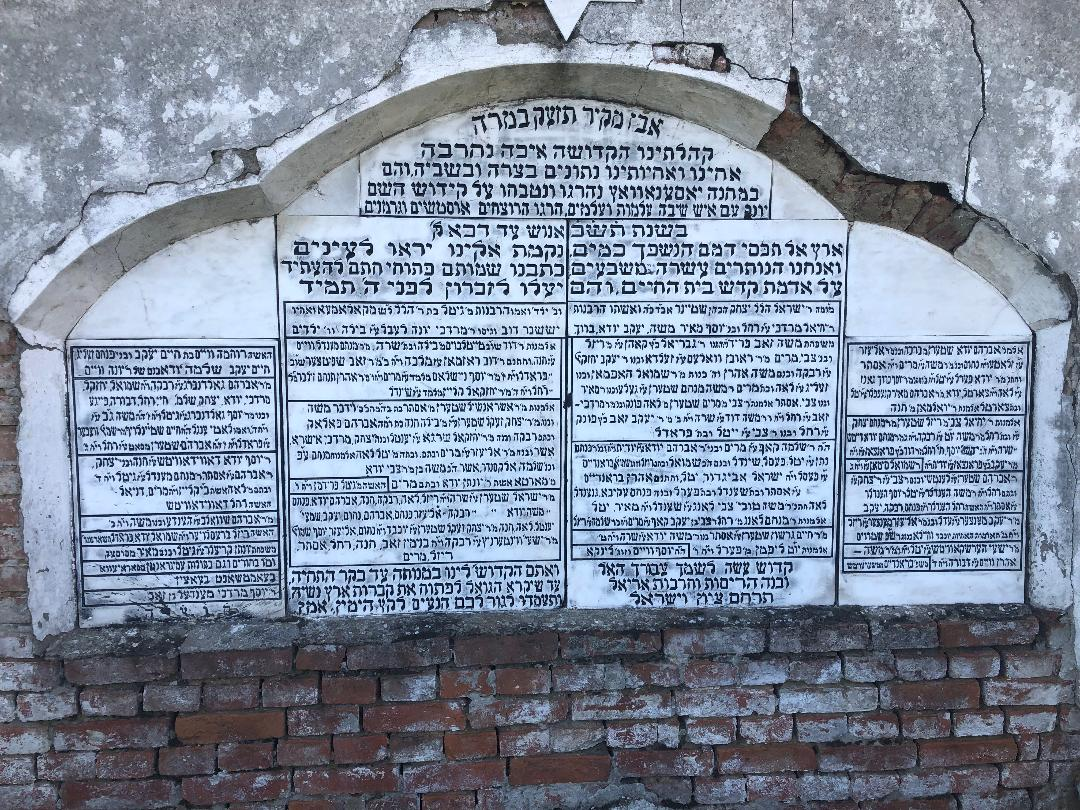 Ilok jewish cemetery holocaust memorial